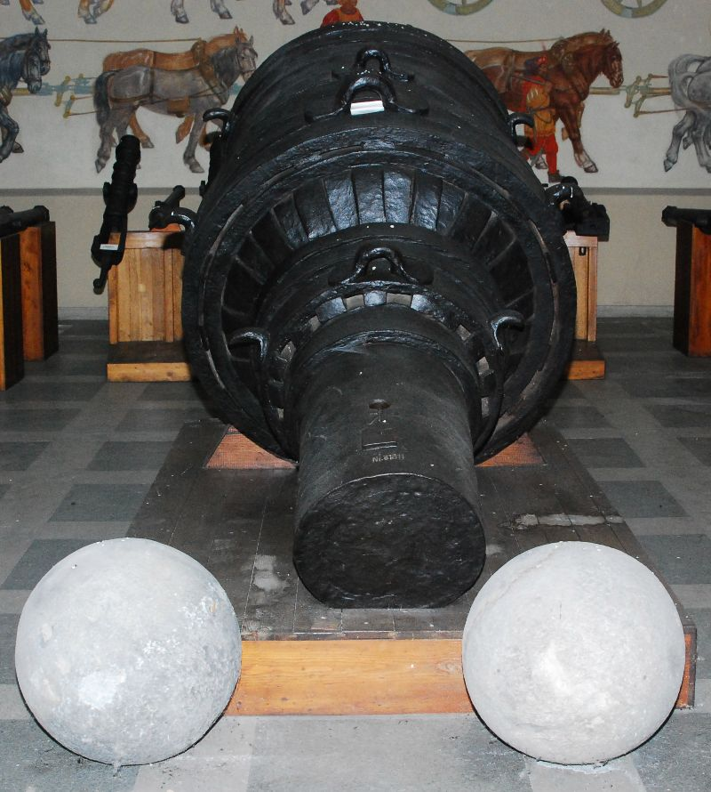 The medieval bombard Pumhart von Steyr in the Heeresgeschichtliches Museum in Vienna (Artilleriehalle Objekt 2).